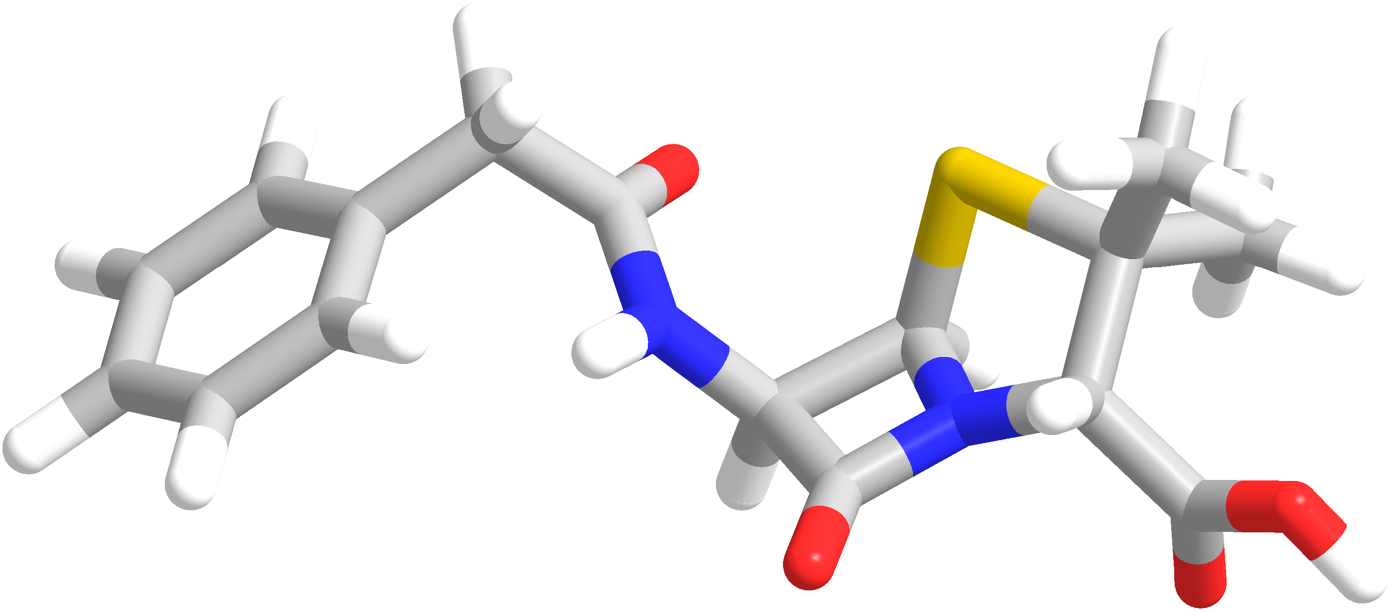 Chemical structure of Penicillin G. High-resolution .PNG made with Chem3D and IrfanView — see WikiProject Chemistry - structure drawing for detailed instructions. Please drop me a note if you need the source file.